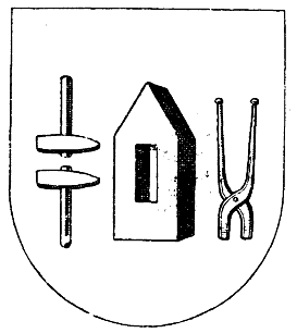 Härjedalen coat of arms